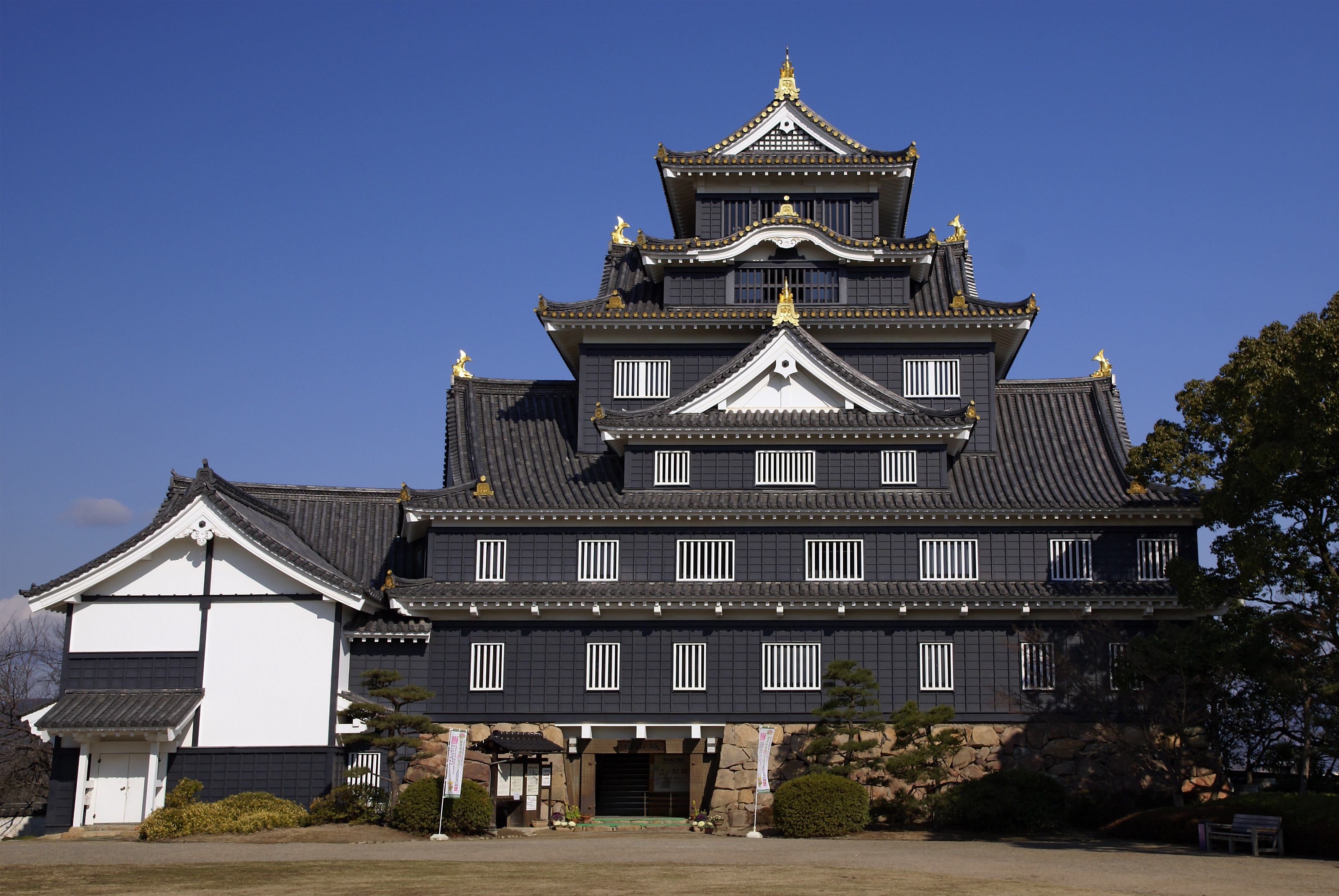 Okayama Castle in Okayama, Okayama prefecture, Japan